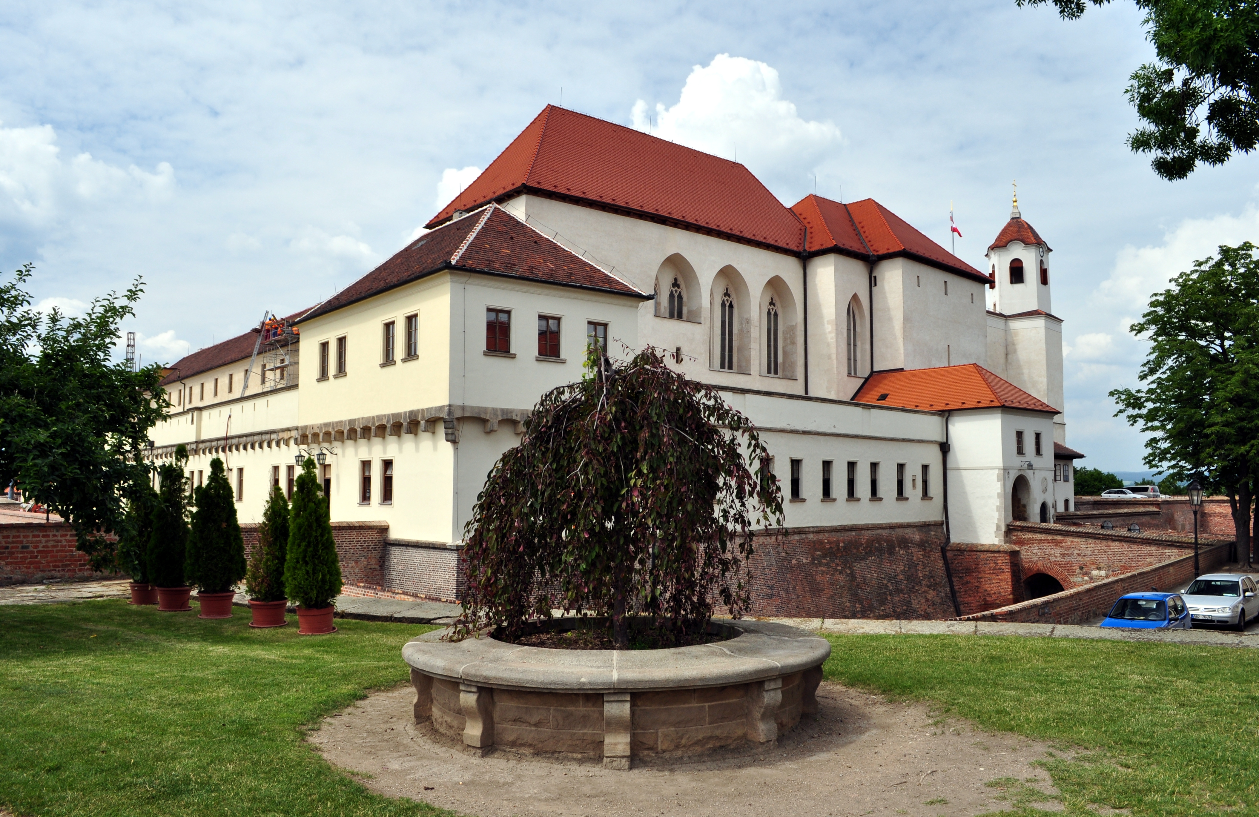 Brno - Špilberk castle